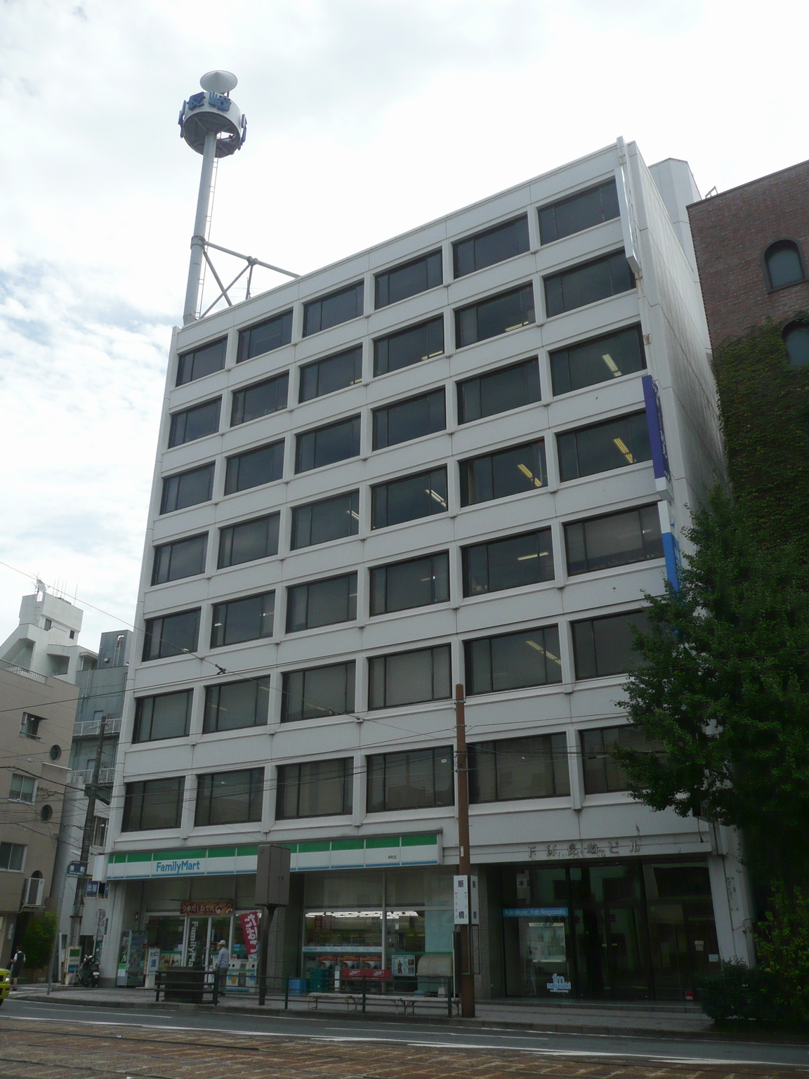 FM Nagasaki Building (FM Nagasaki Main office - Nagasaki City, Japan)